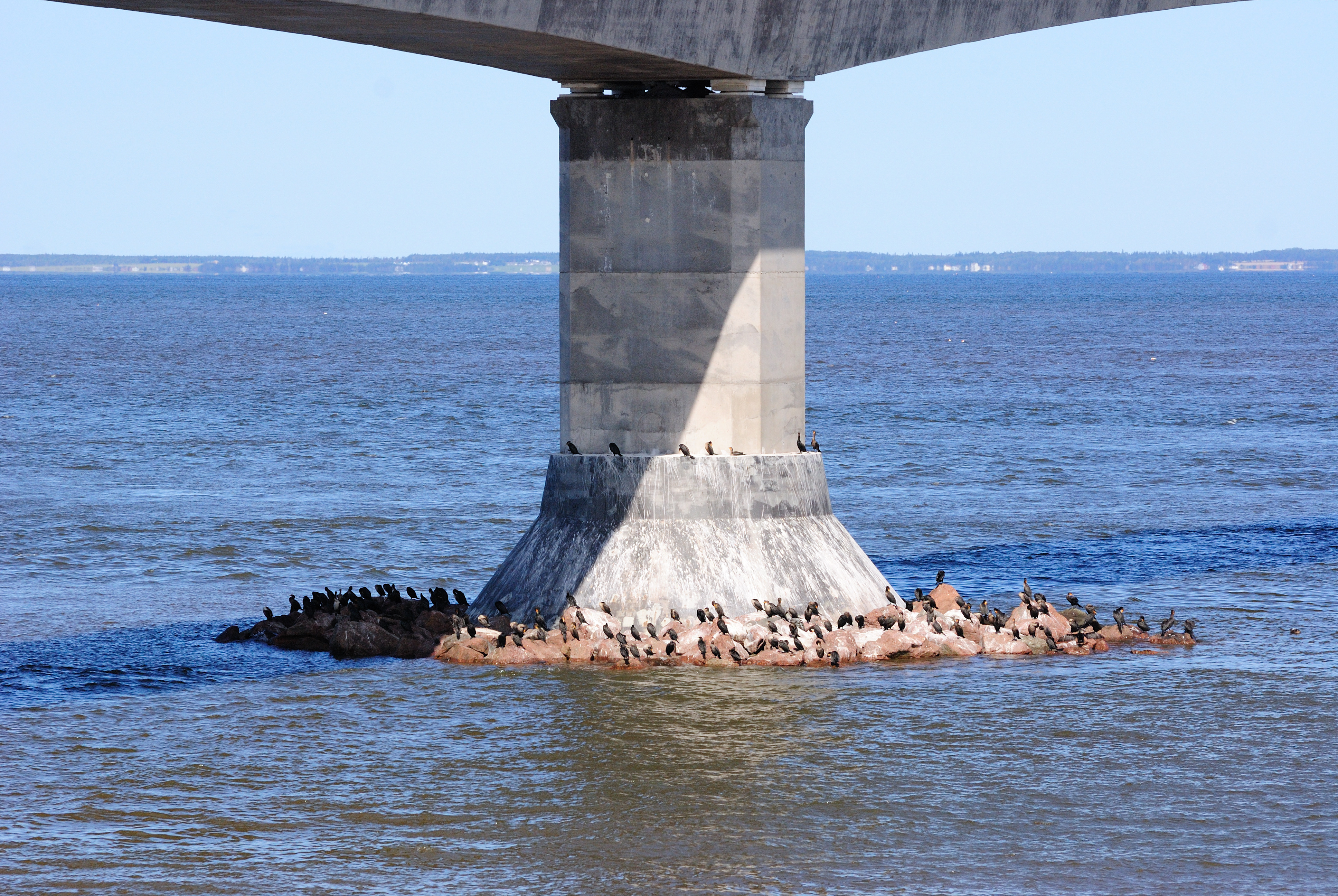 Confederation Bridge, Canada: bridge pier